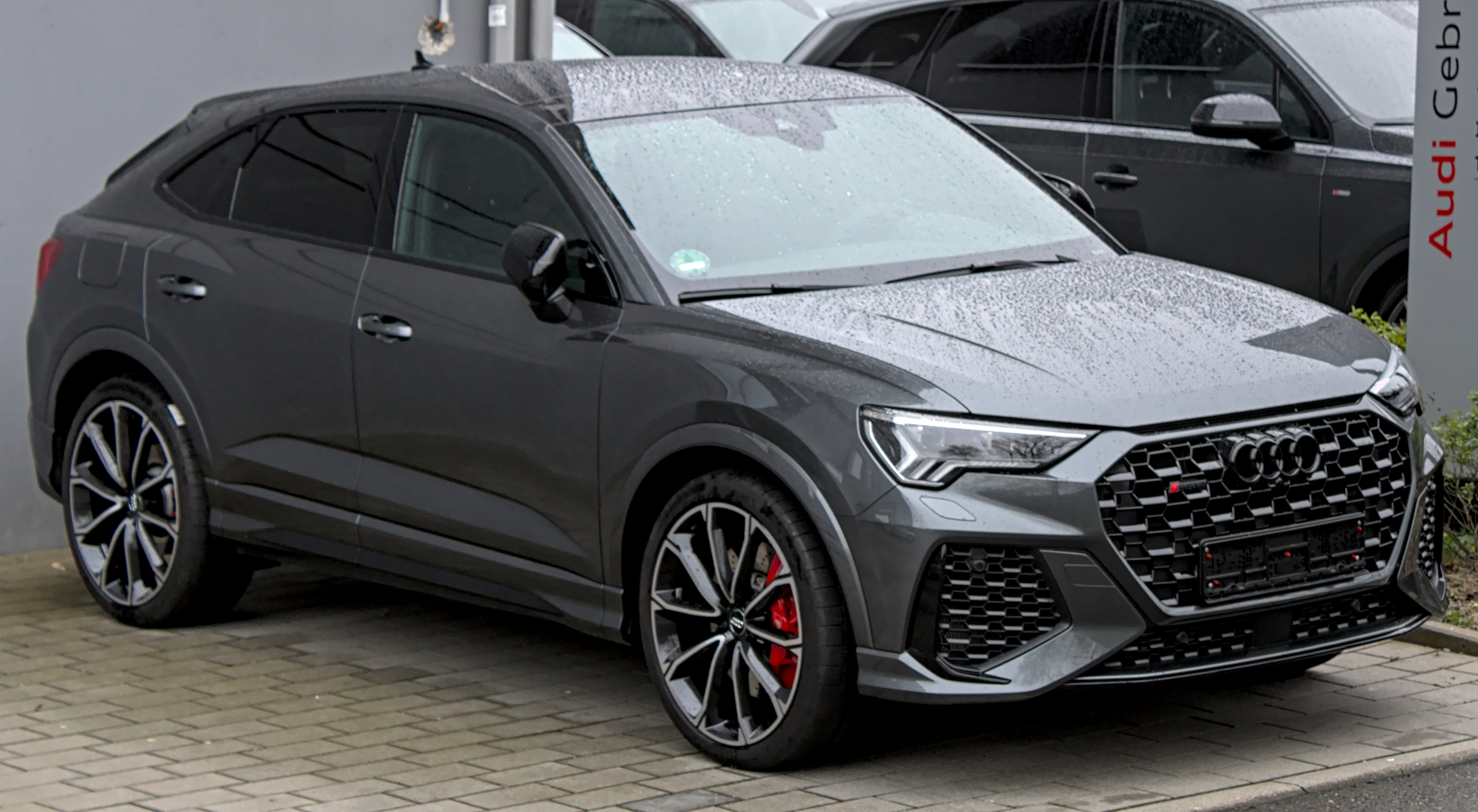 Audi_RS_Q3_Sportback in Stuttgart-Vaihingen